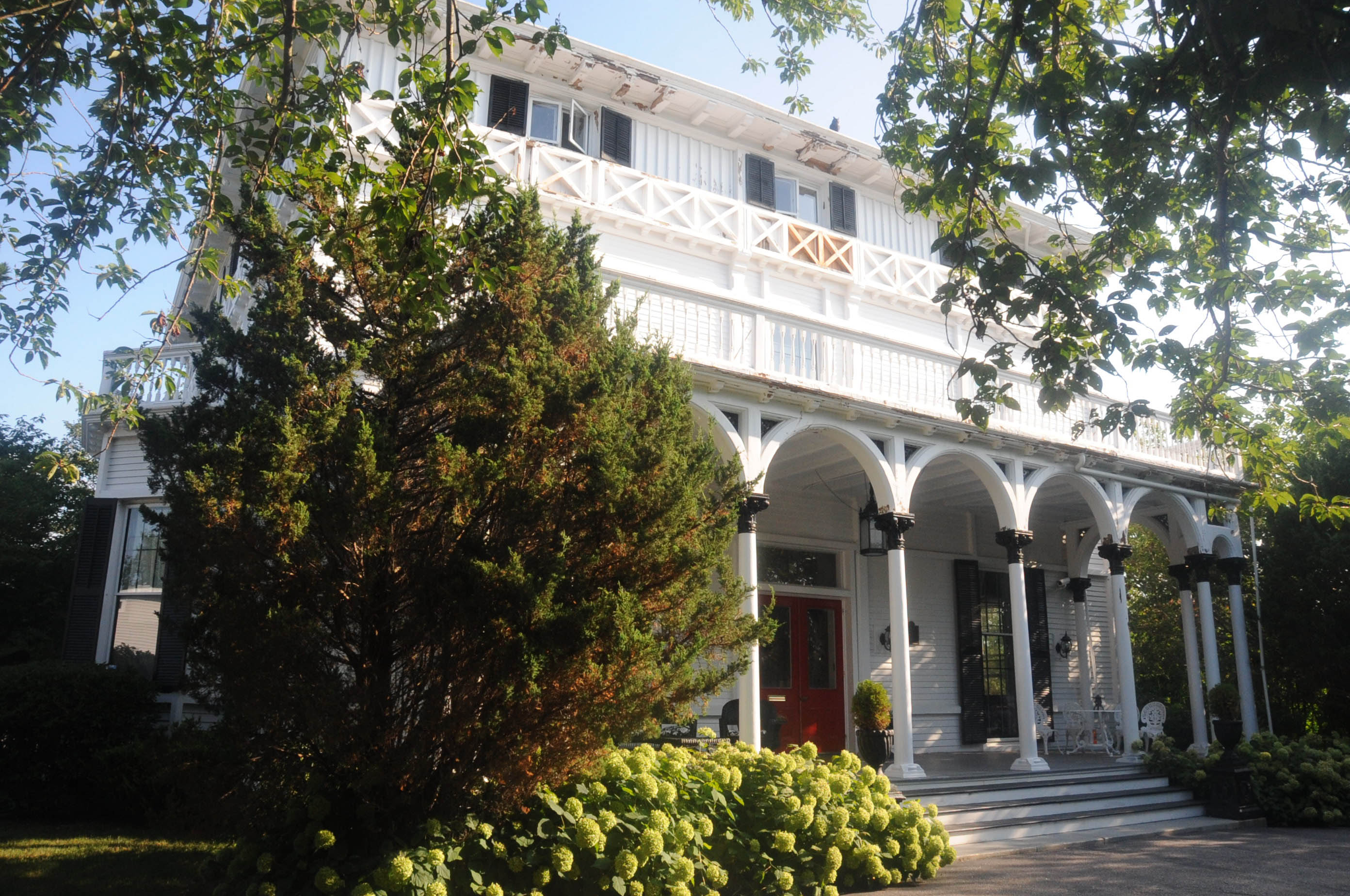 AKA VILLALON. MONTPELIER, SHADOW LAWN, AGINCOURT, AND CURRENTLY THE INN AT VILLALON. BUILT IN THE MID 19TH CENTURY AND IS ONE OF THE FIRST ITALIANATE STICK-STYLE HOUSES BUILT IN THE UNTED STATES